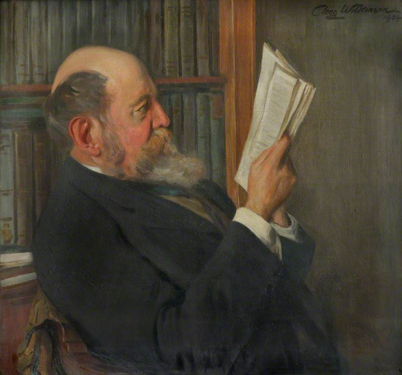 Portrait of Norman MacColl (1843–1904), Scottish man of letters.